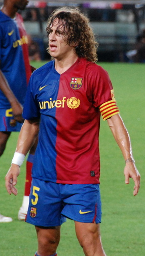 a photo of Carles Puyol at Joan Gamper Trophy 2008, cropped by me